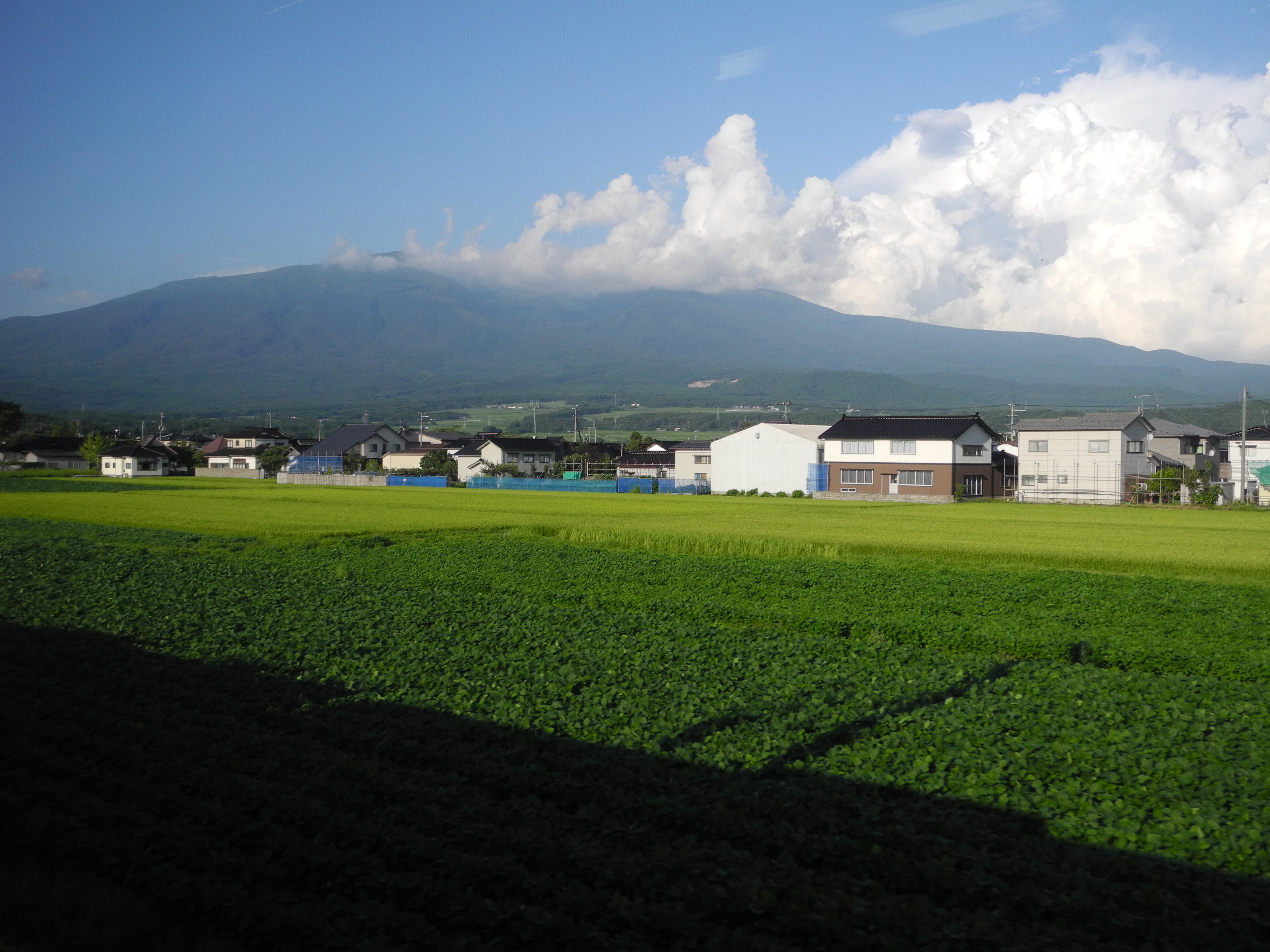 Mt. Chokai seen from the train in Nikaho. Akita, Japan.